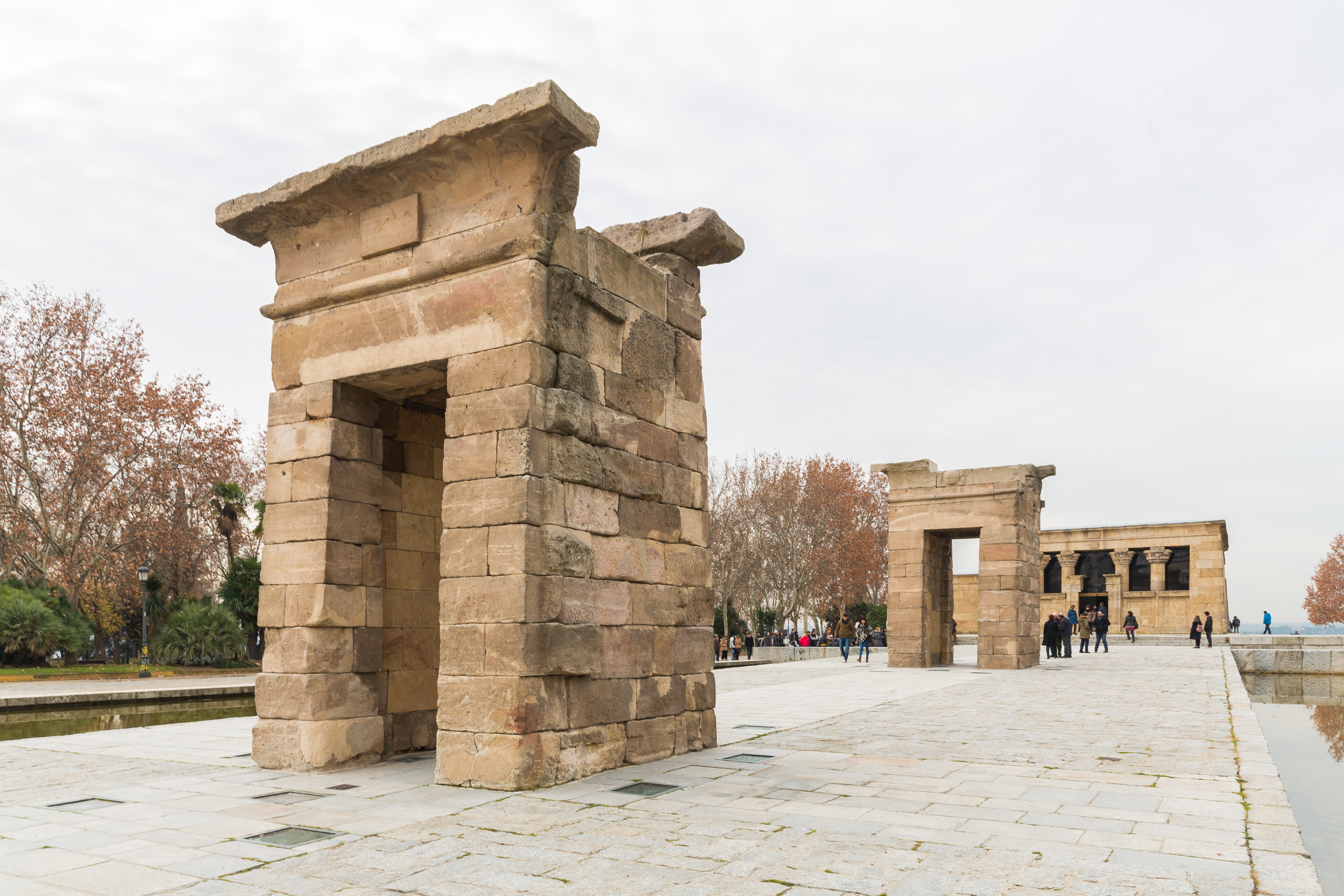 Temple of Debod, Madrid, Spain